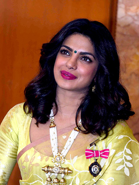 Priyanka Chopra's press conference after being conferred with the Padma Shri